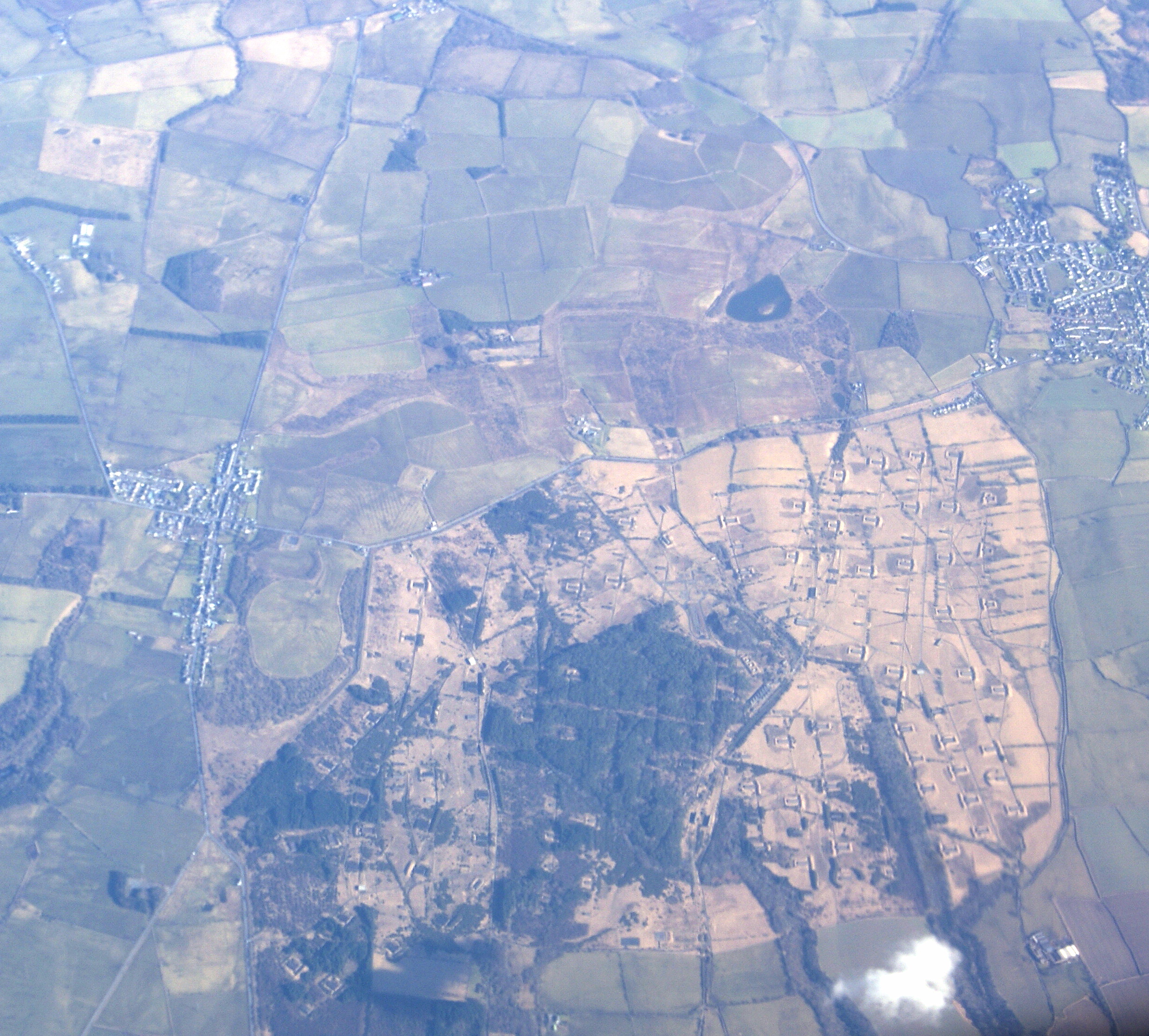 RNAD Broughton Moor The decommissioned Royal Navy Armaments Depot, which closed in 1992. Click this RNAD_Broughton_Moor for more information about the site. Viewed from a Brussels bound flight from Prestwick.